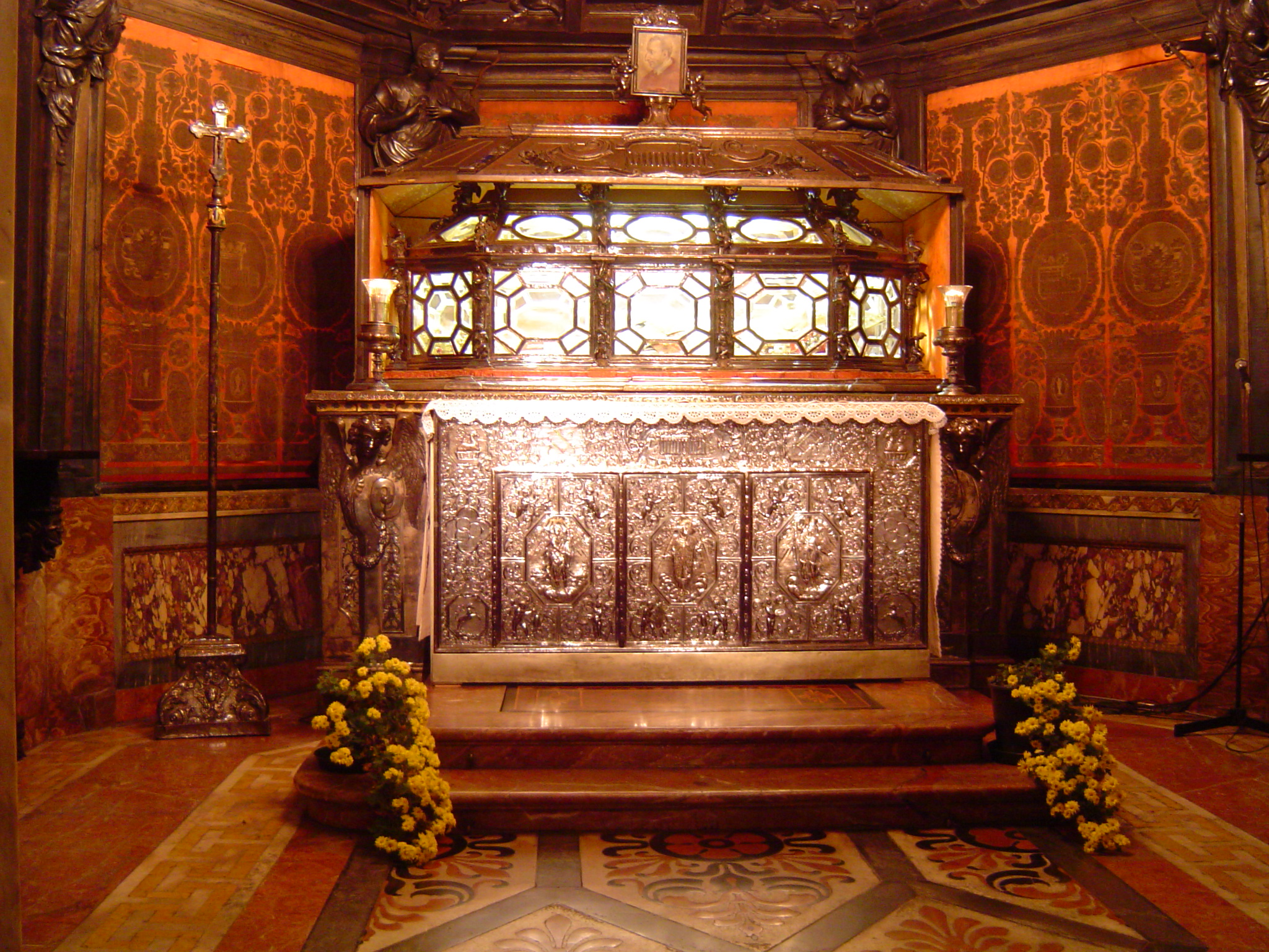 The Crypt of Saint Charles Borromeo, in the basement of the Duomo di Milano, Italy. Photo taken by me.